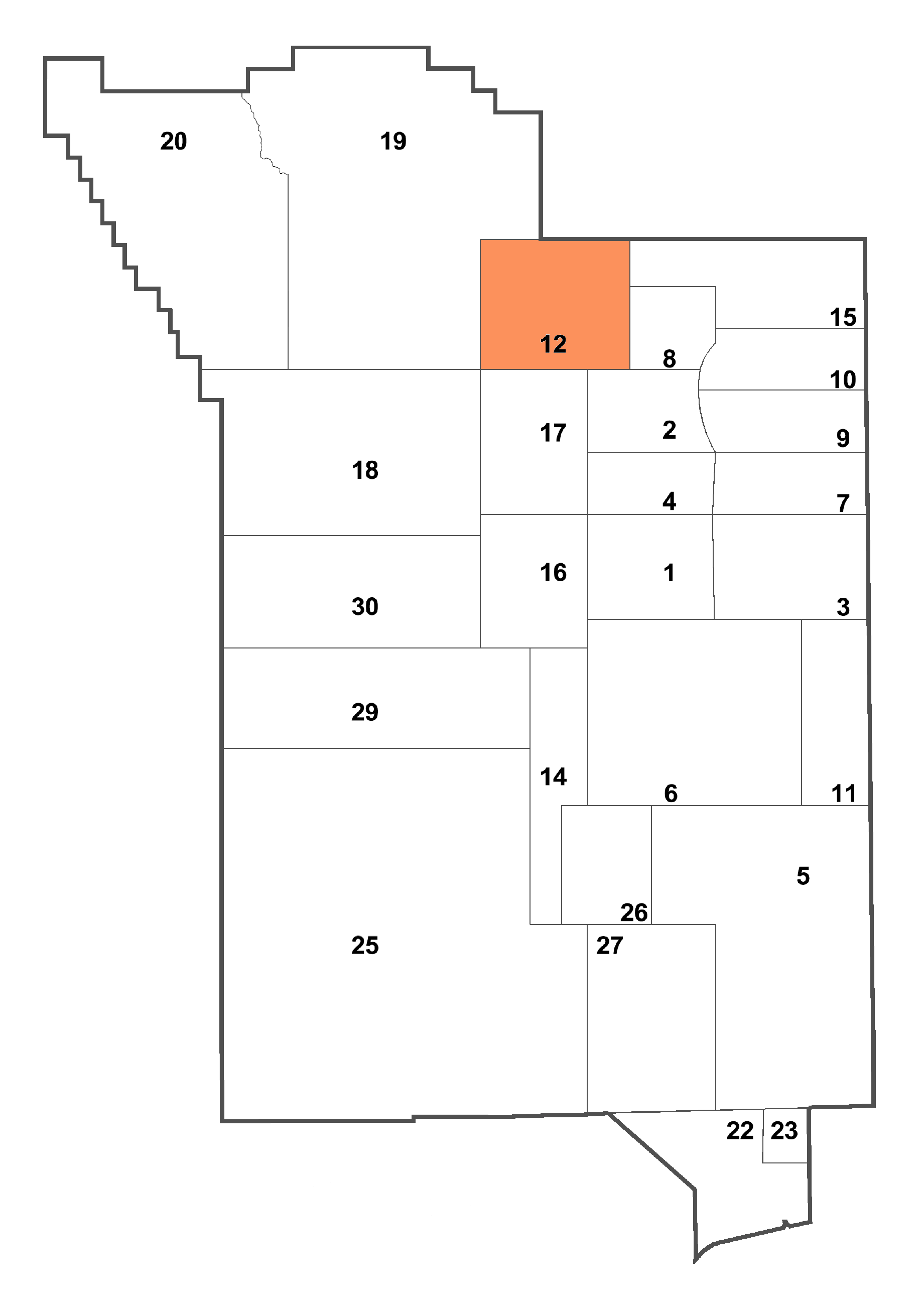 This is a derivative work based on a map taken from a PDF published by Nevada Risk Assessment/Management Program, Nevada Test Site, a part of the US Department of Energy.